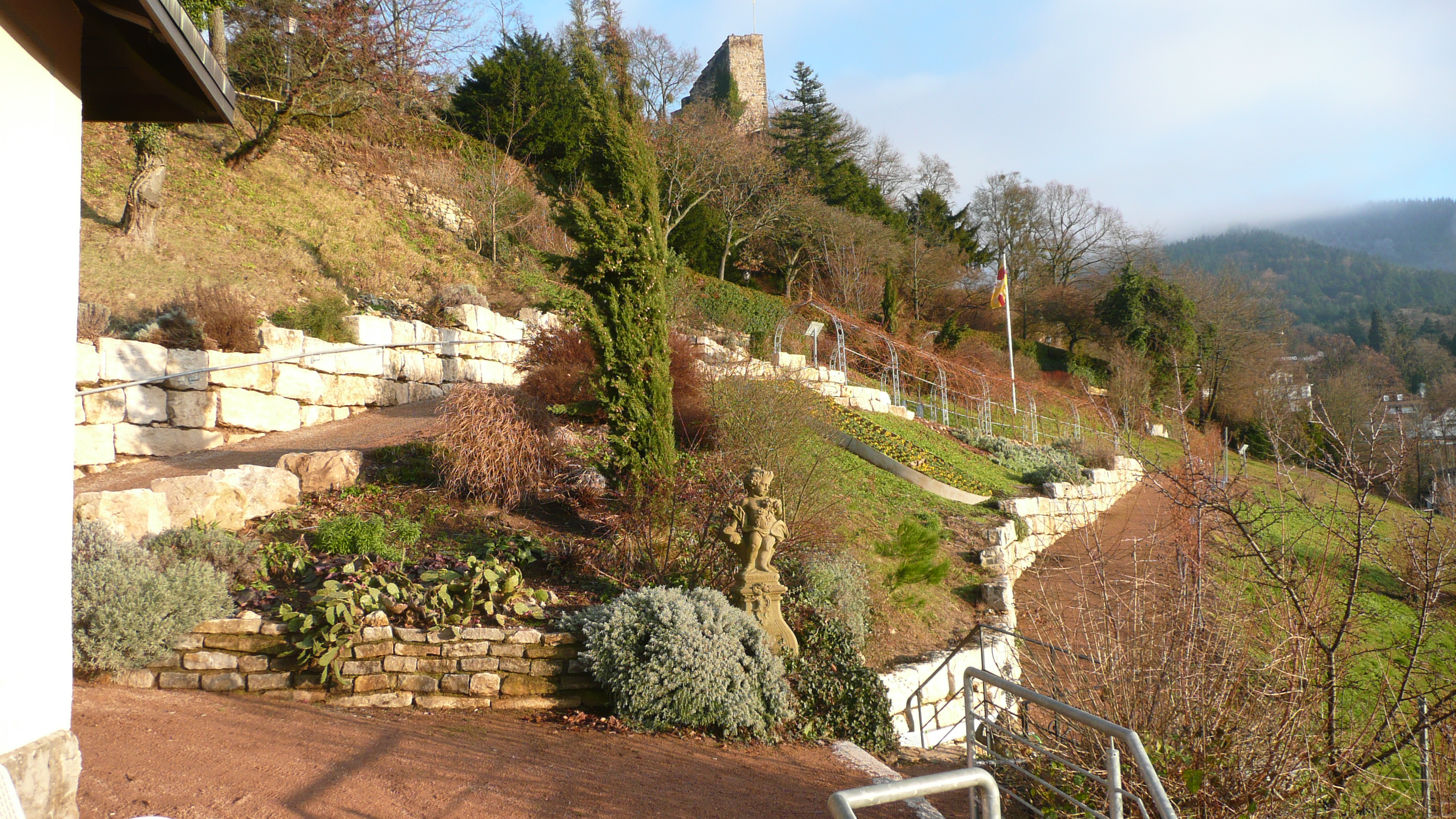 Hildegard von Bingen garden in Badenweiler